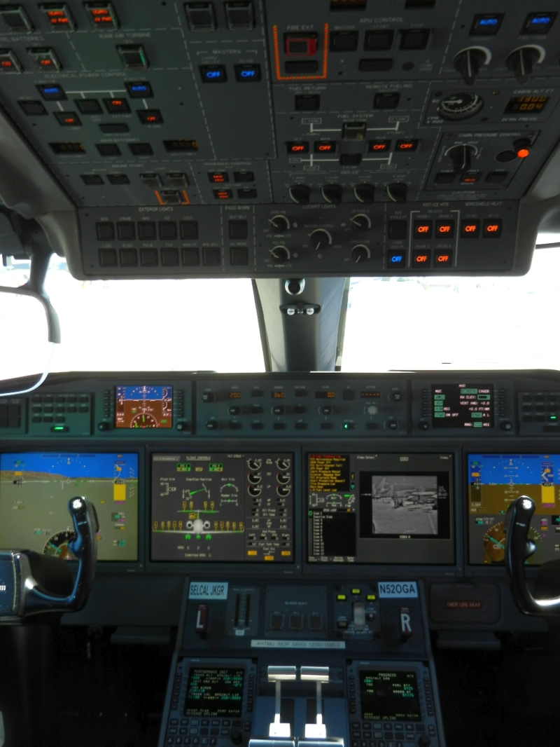 Gulfstream G650 Cockpit